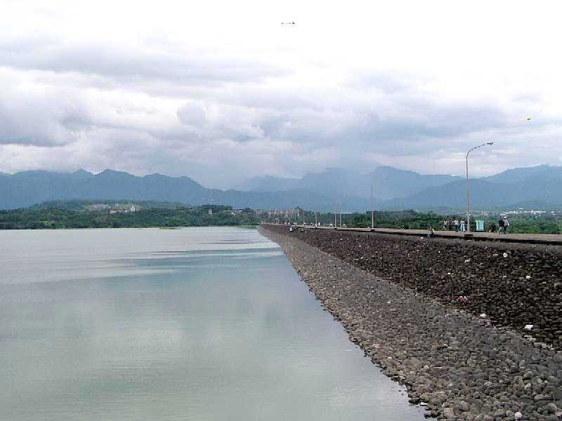 Renyitan Dam